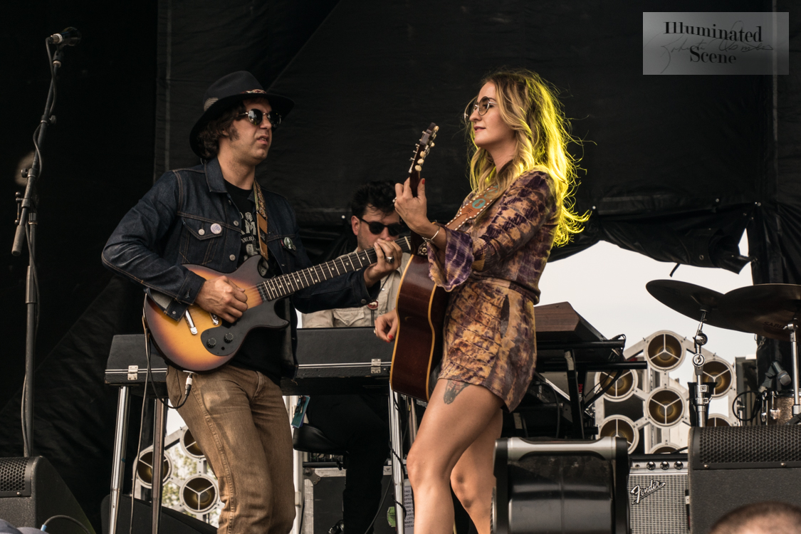 Margo Price at Hinterland Music Festival, St. Charles, IA 8/4/18